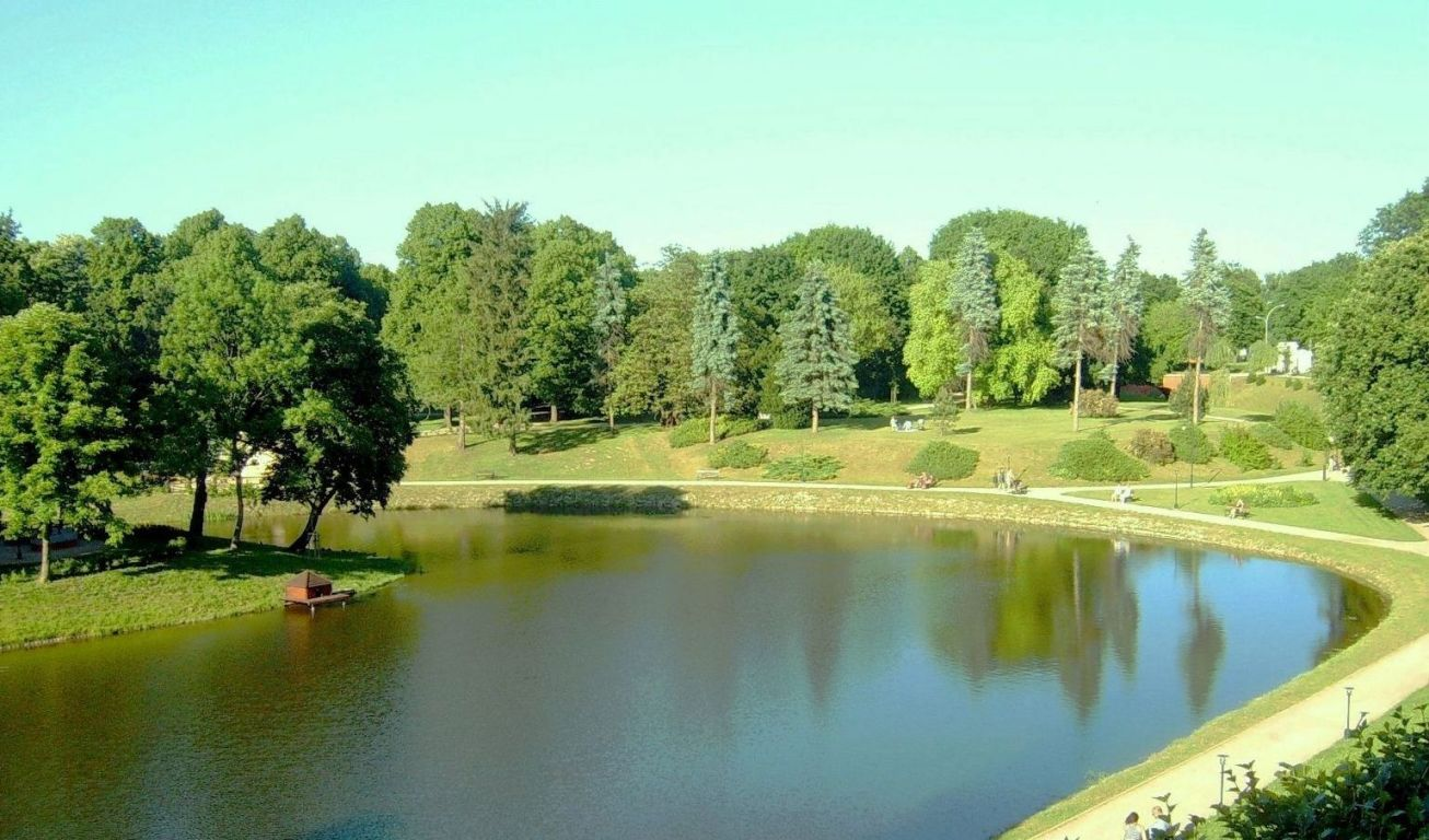 Town Park in Zamość